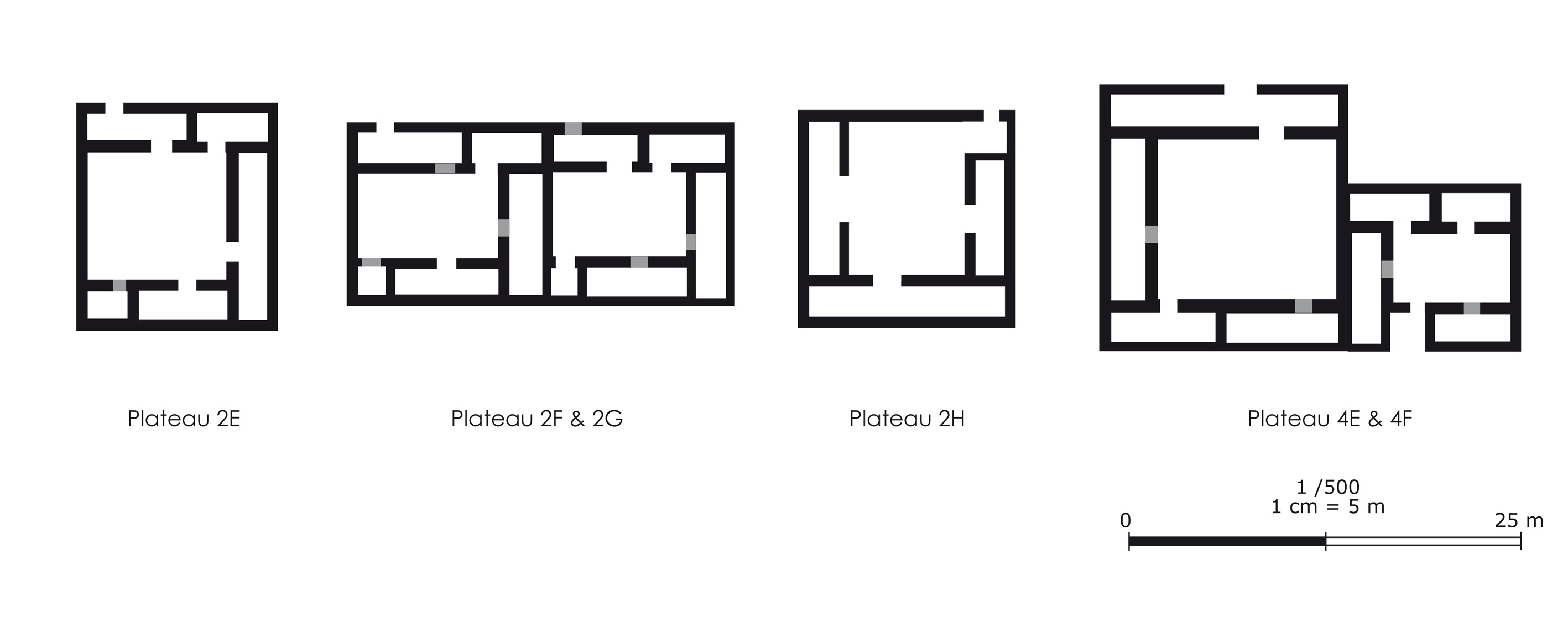 Plans of some of the houses at Jebel Mudawwar/Gara Medouar, Morocco; photo by Chloe Capel